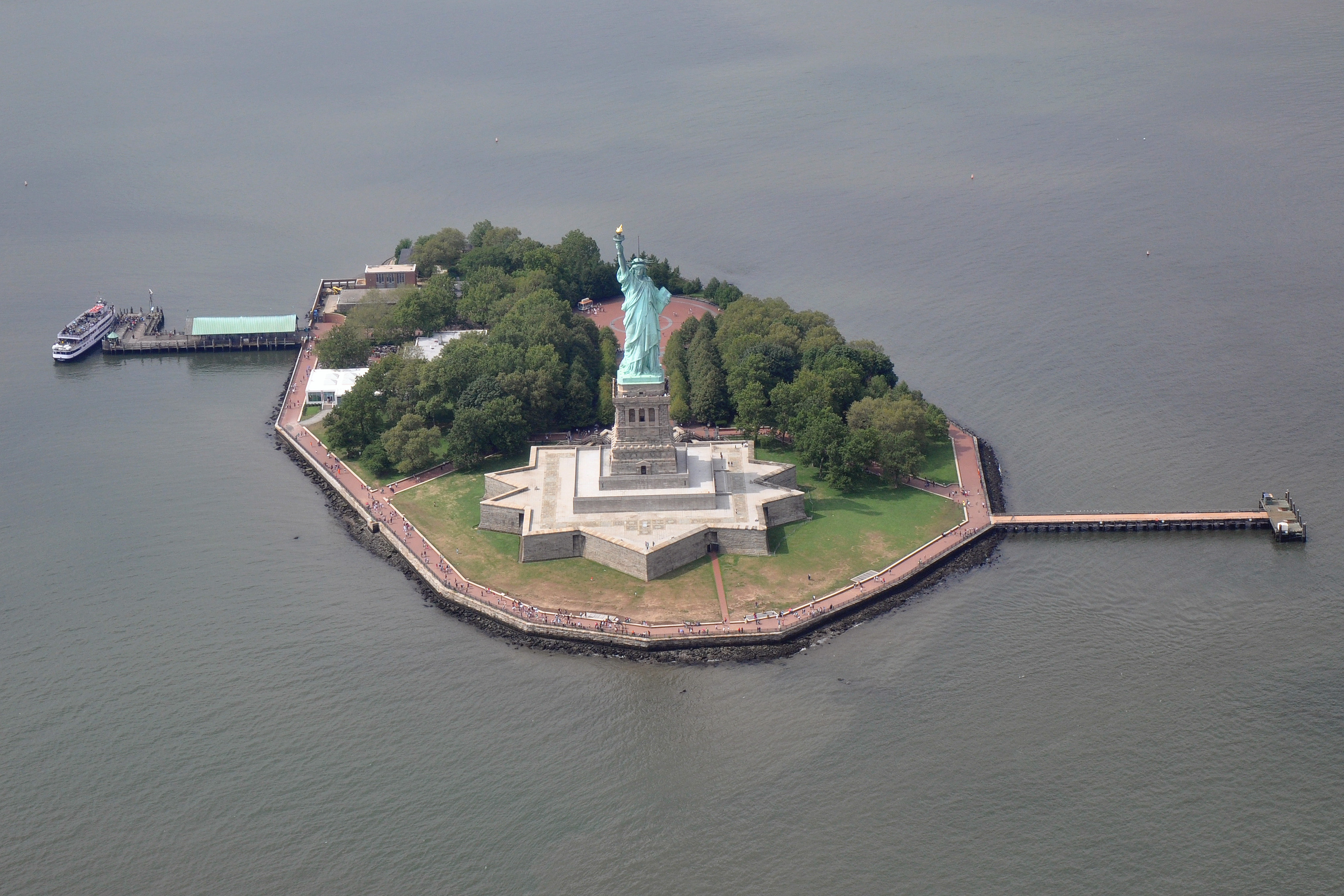 Liberty Island from helicopter - NYC - USA.